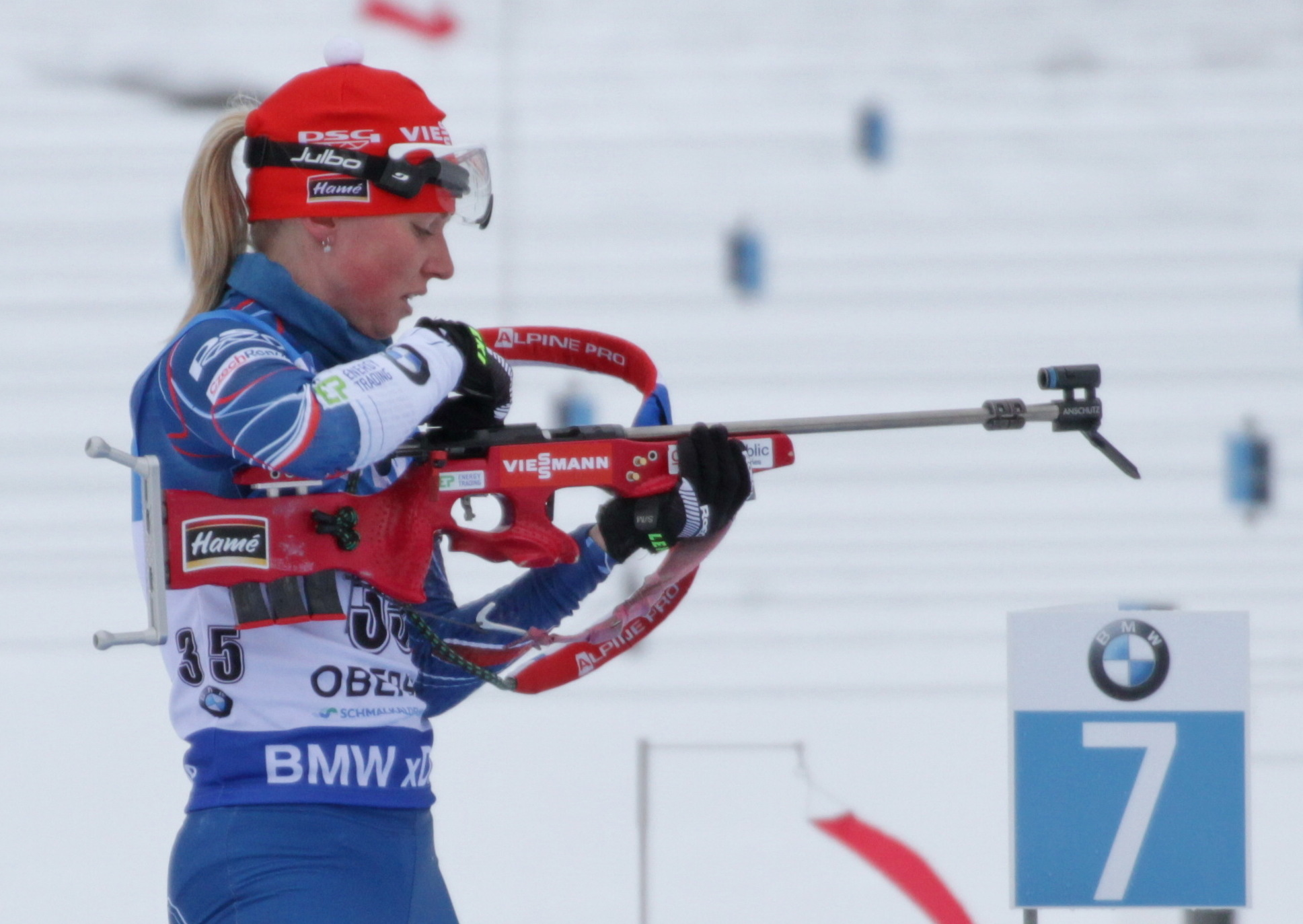 2018 Oberhof Biathlon World Cup - Sprint Women